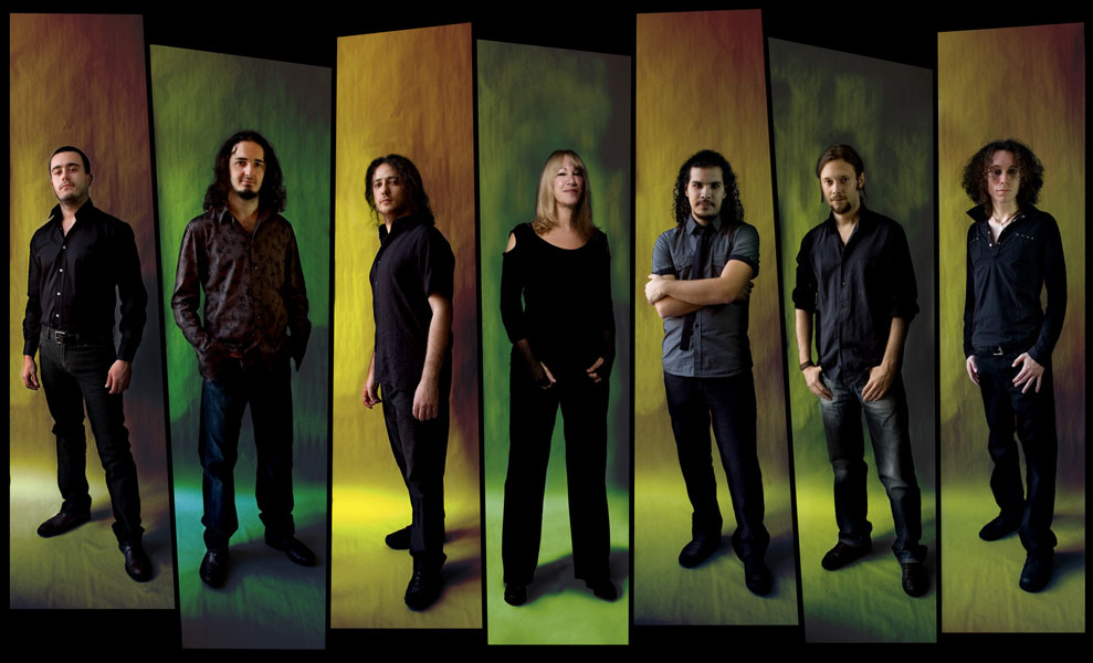 Dreamtone & Iris Mavraki's Neverland Promo Shot from 2007